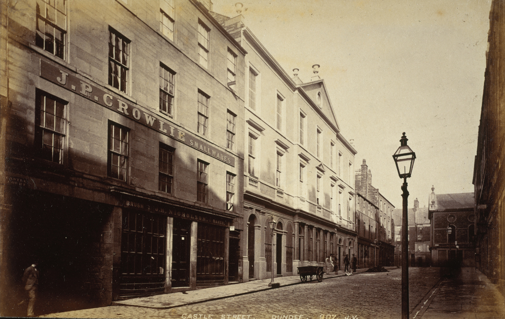 James Valentine about 1876 Accession no. PGP R 734 Medium Albumen print Size 17.9 x 11.5 cm Credit Gift of Mrs. Riddell in memory of Peter Fletcher Riddell, 1985 For more information please select Valentine&submit=1 here.